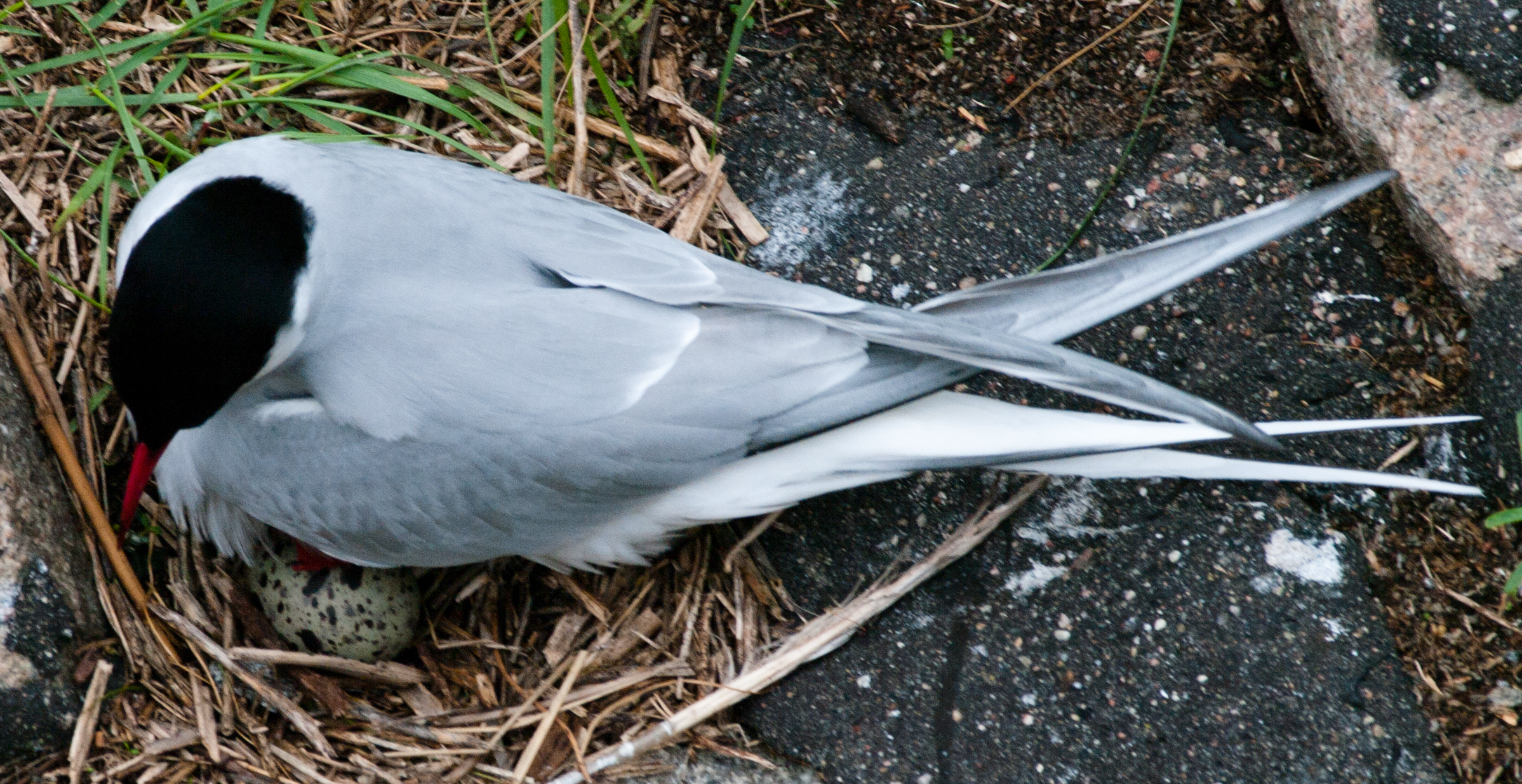 Dithmarschen in Early summer